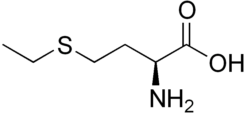 chemical structure of ethionine